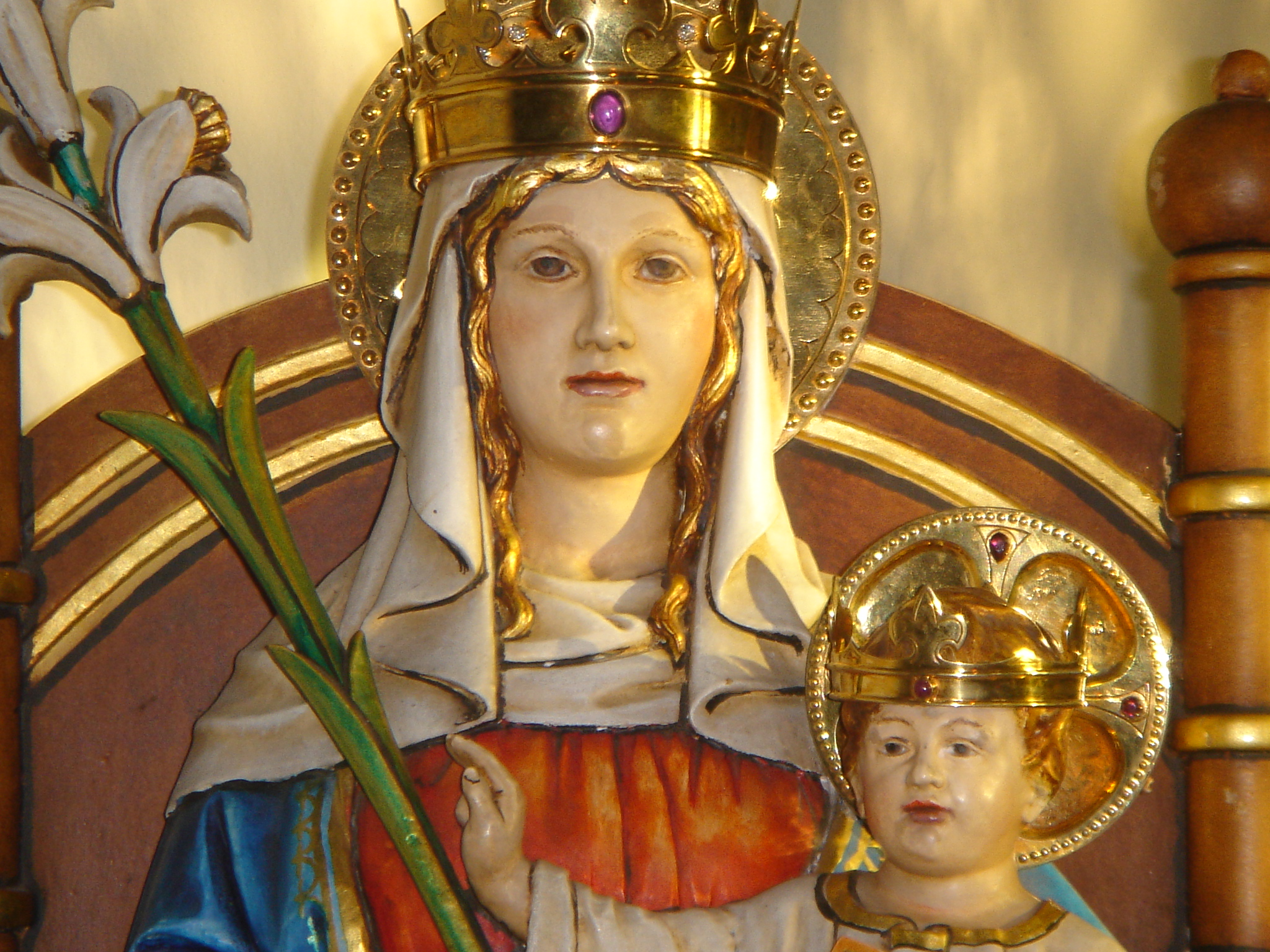 The statue of Our Lady of Walsingham, the Slipper Chapel, Walsingham, Norfolk, England.